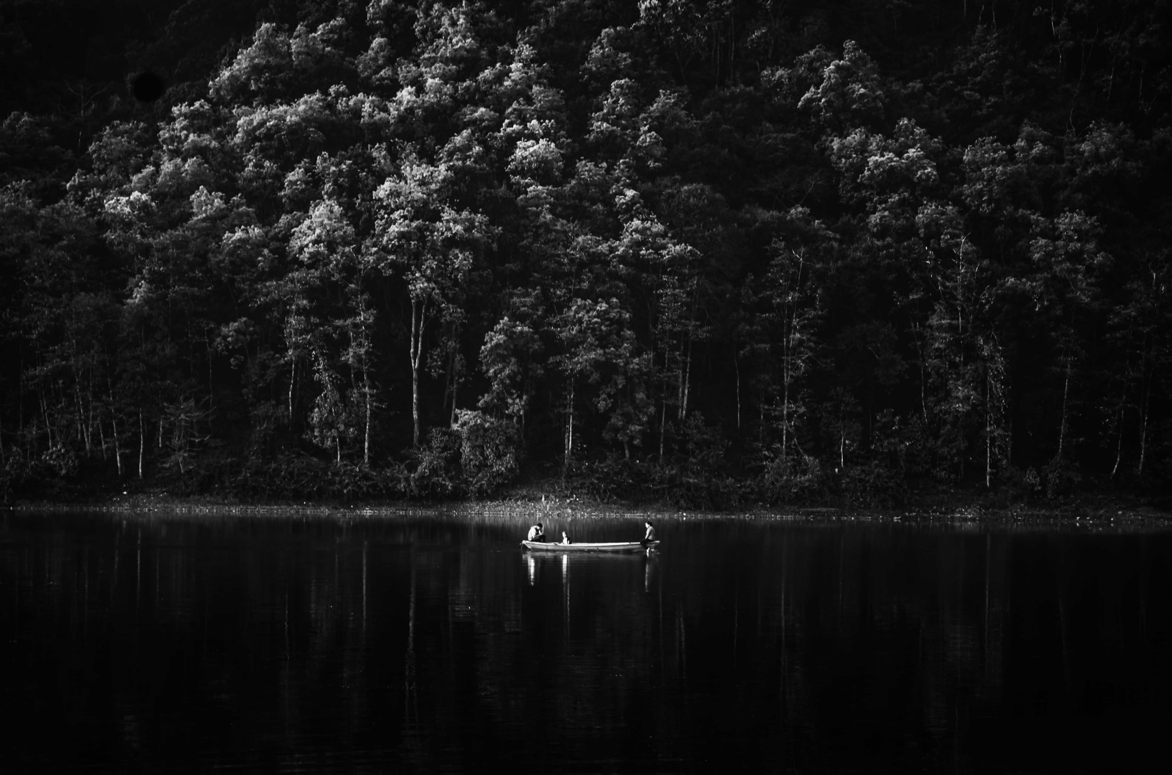 Phewa Lake